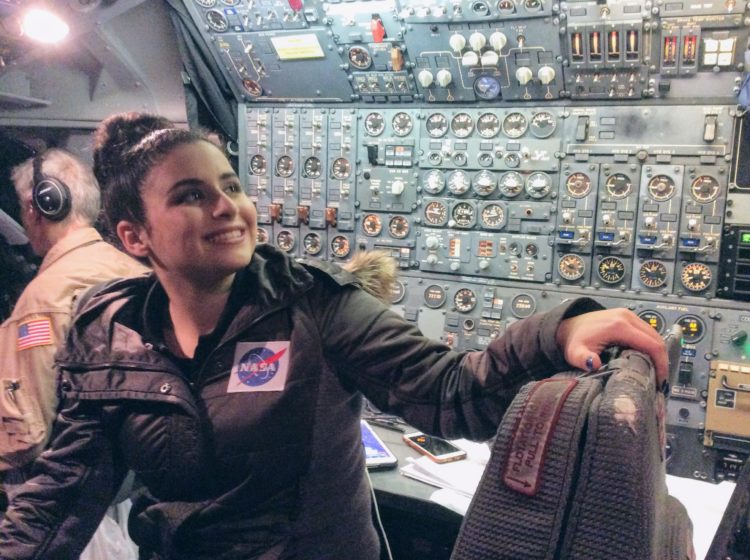 In July 2017, Alexia Hilbertidou was invited by NASA to be part of the SOFIA Project and ride onboard NASA's 747 jumbo jet during an overnight exploratory mission